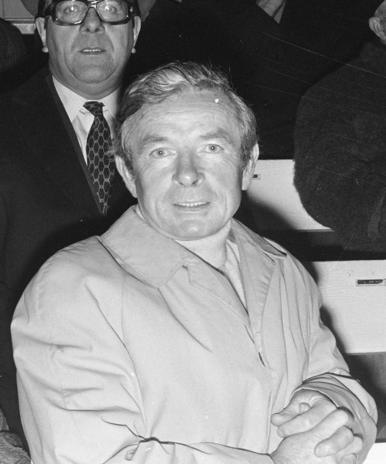 Jimmy Hagan in 1971.